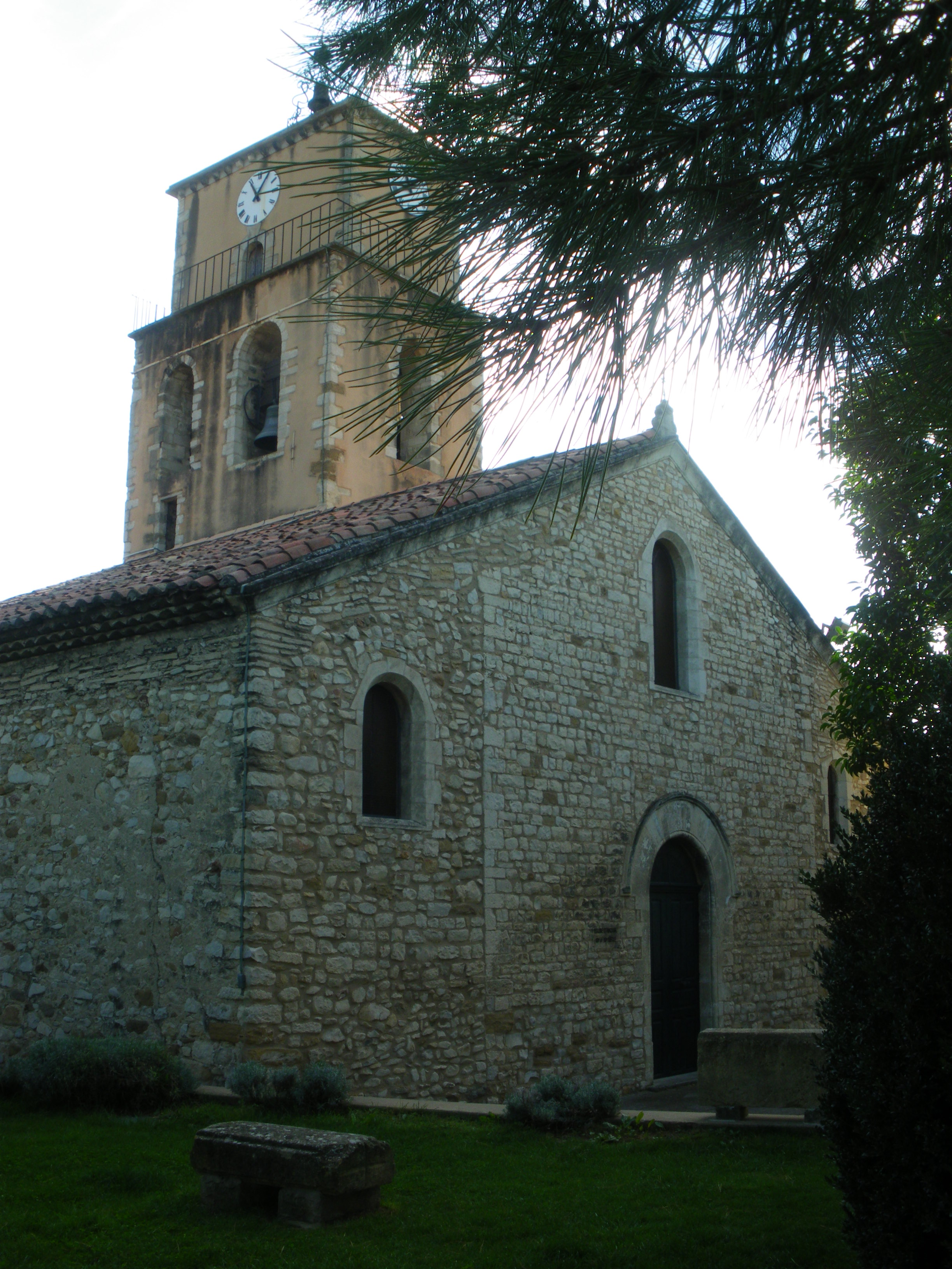 Church of Sablet, Vaucluse, France